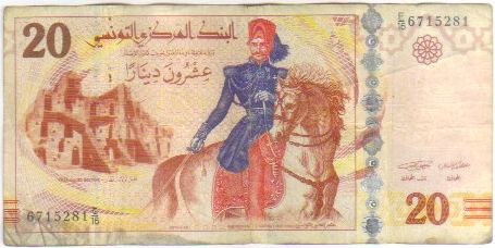 New 20 TND banknote issued in 2011